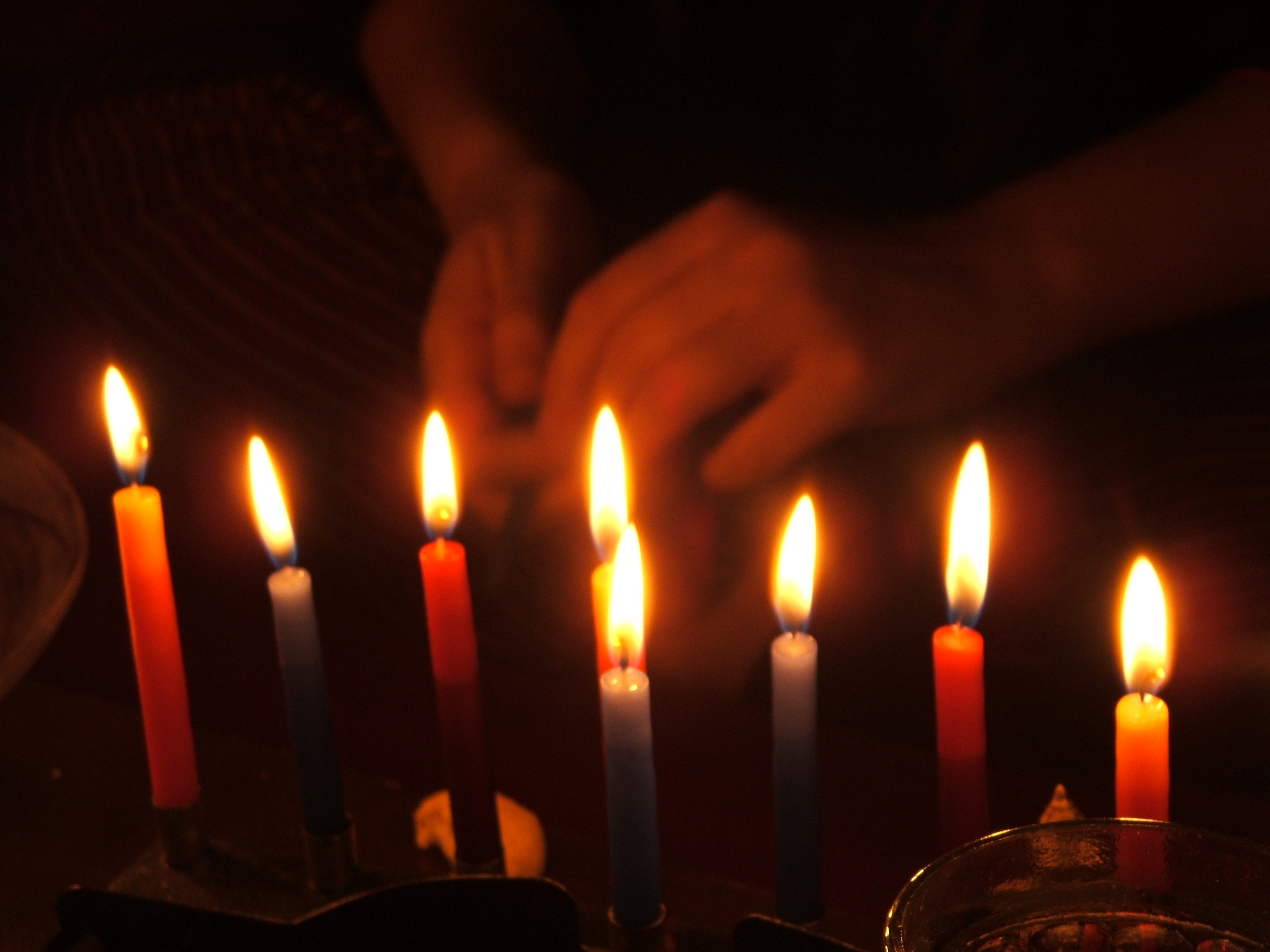 Light holdings of Hanukkah